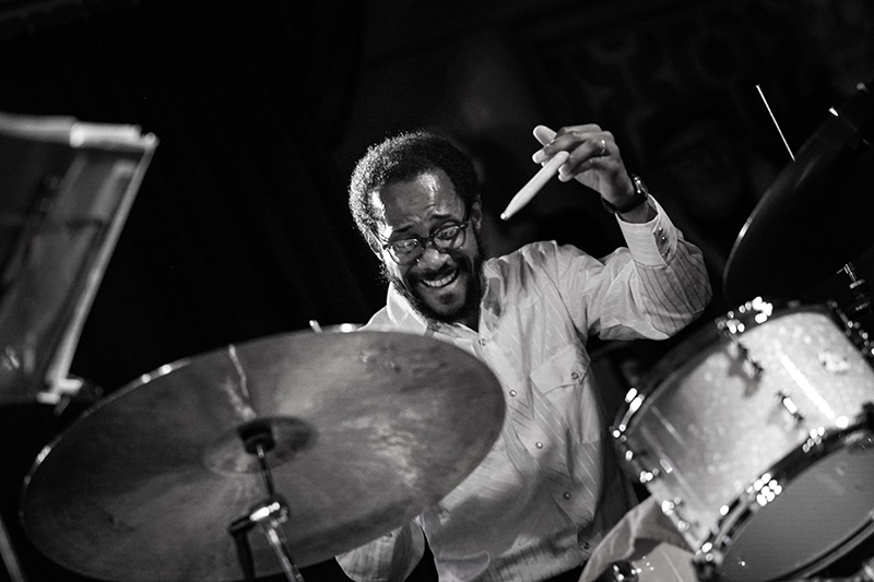 Brian Blade in Aarhus, Denmark 2017. Playing with Benjamin Koppel (s) and Scott Colley (b).